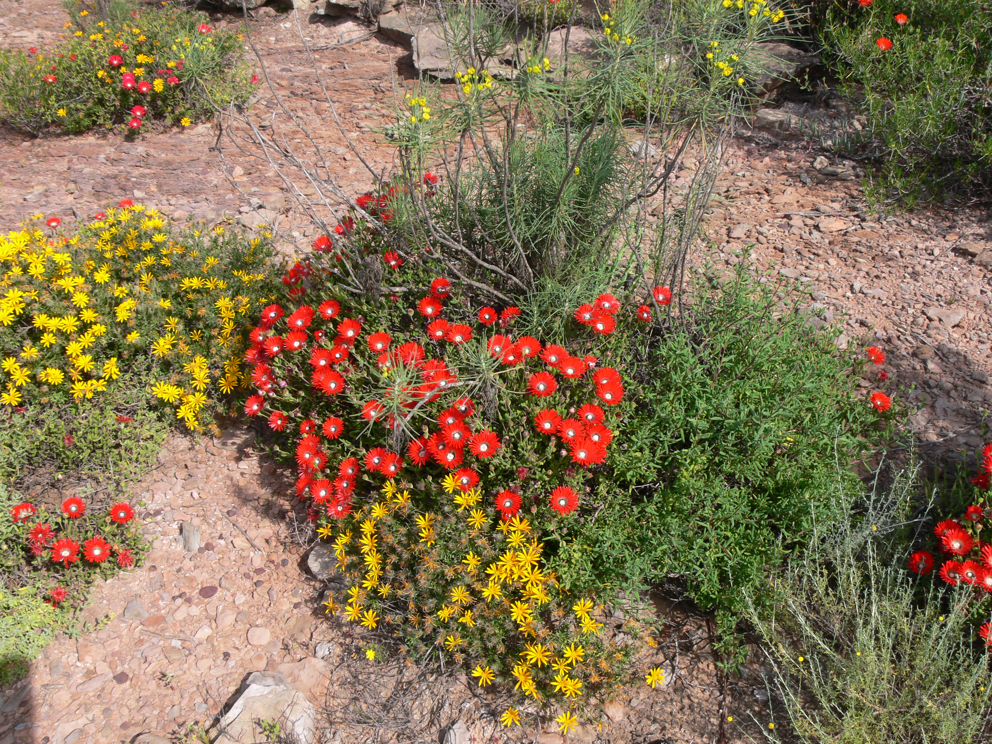 Worcester-Robertson vygie, Red ice-plant, Berg vygie (Drosanthemum speciosum (Haw.) Schwantes) on the street between Robertson and Worchester, Western Cape, South Africa